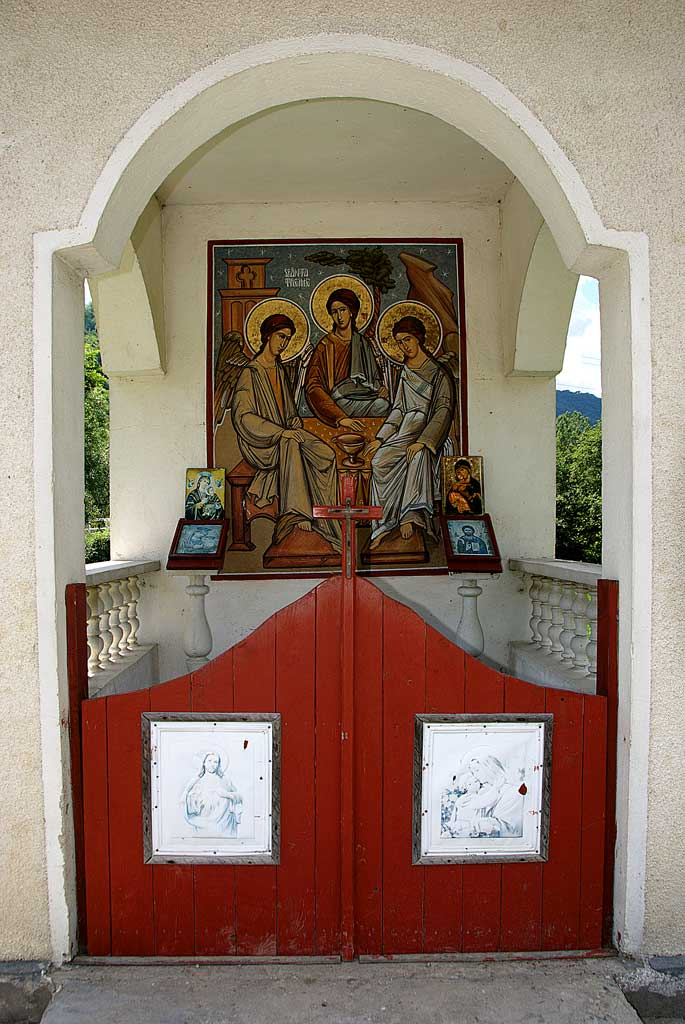 Bichigiu - Chapel at the Nationalstreet 17C